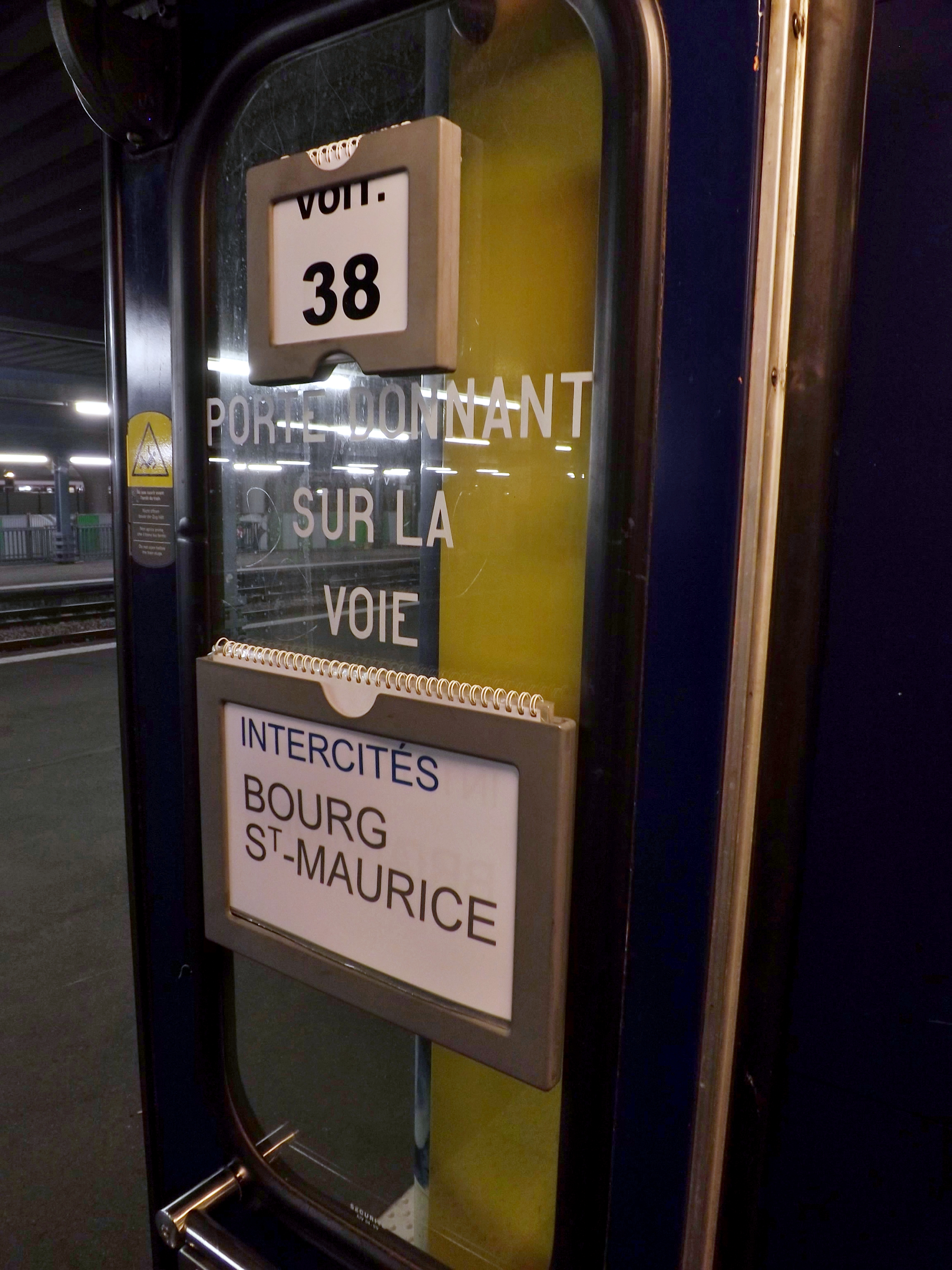 Sight of a French SNCF couchette-car's door in the Intercités de Nuit night train n° 5705 from Paris station at Bourg-Saint-Maurice station, a few minutes before it leaves.